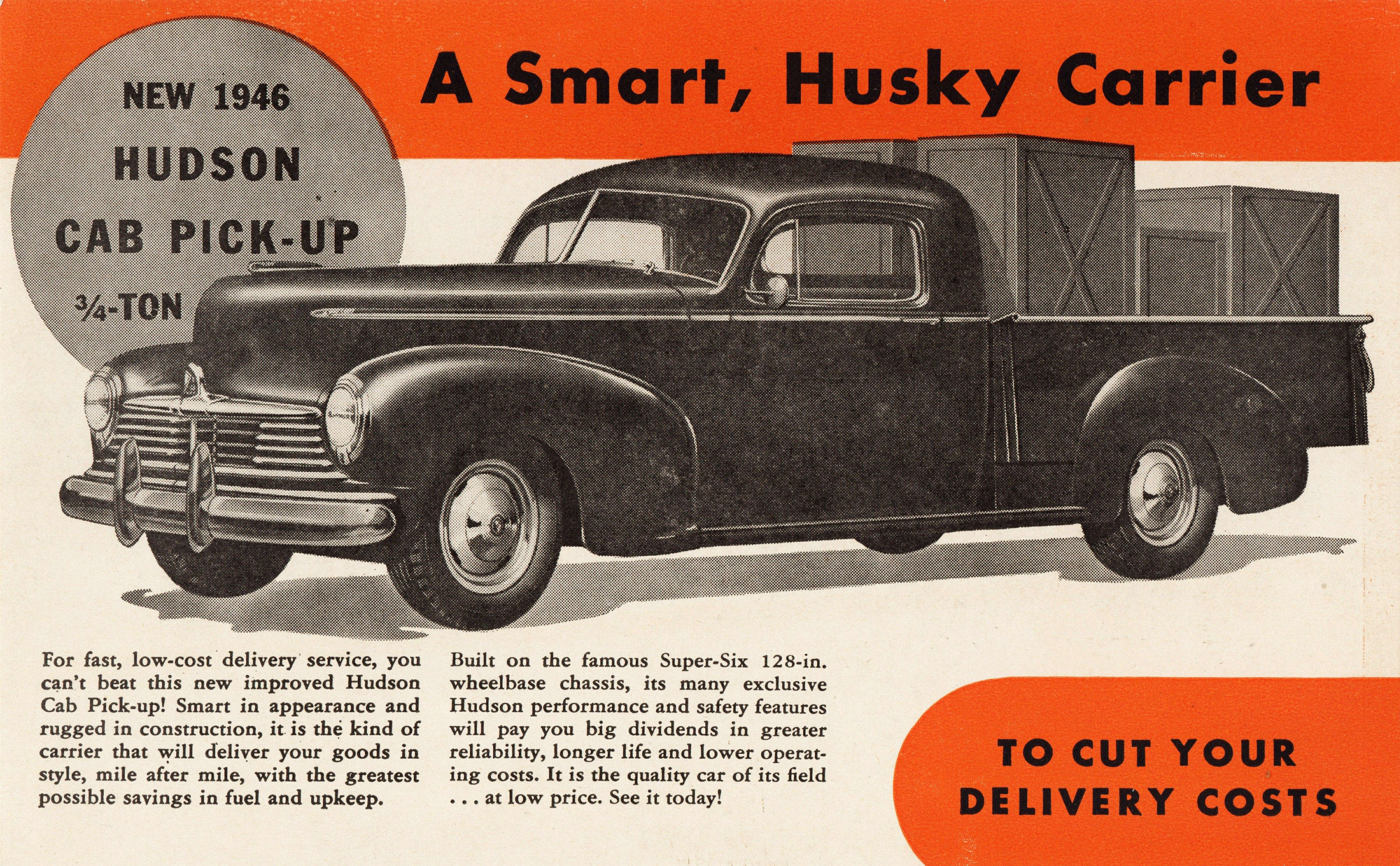 1946 Hudson 3/4 Ton Cab Pick-Up